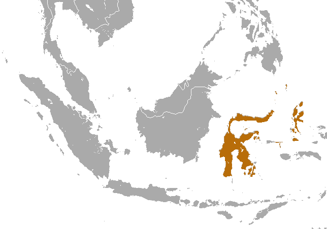 Halmahera Naked-backed Fruit Bat (Dobsonia crenulata) range